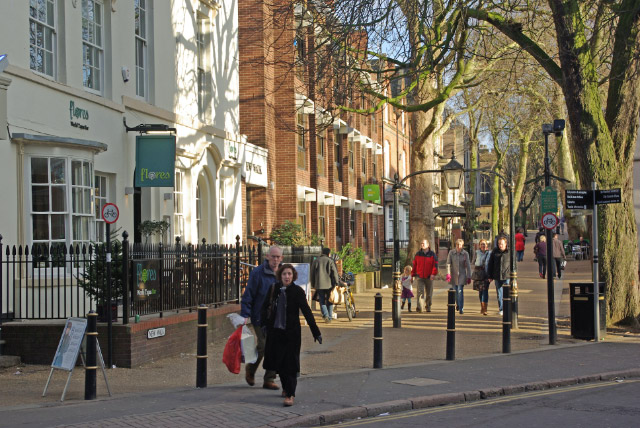 New Walk, Leicester This is close to the western end of New Walk where it crosses King Street. New Walk leads eventually through to Victoria Park and has been a pedestrian-only walkway since it was laid out in 1785.